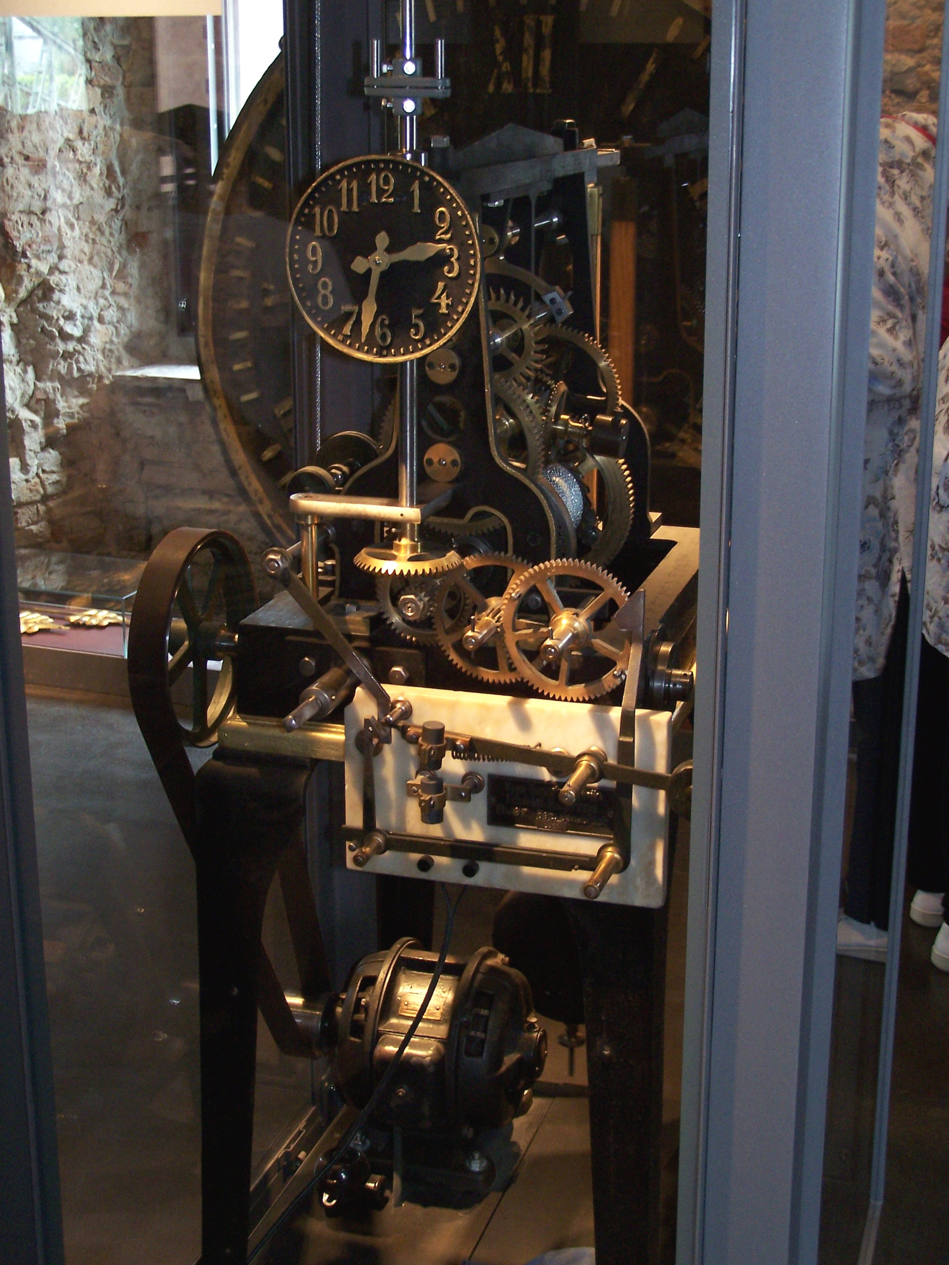 Clockwork of the turret clock of the Rententurm at the Historical museum in Frankfurt-Innenstadt